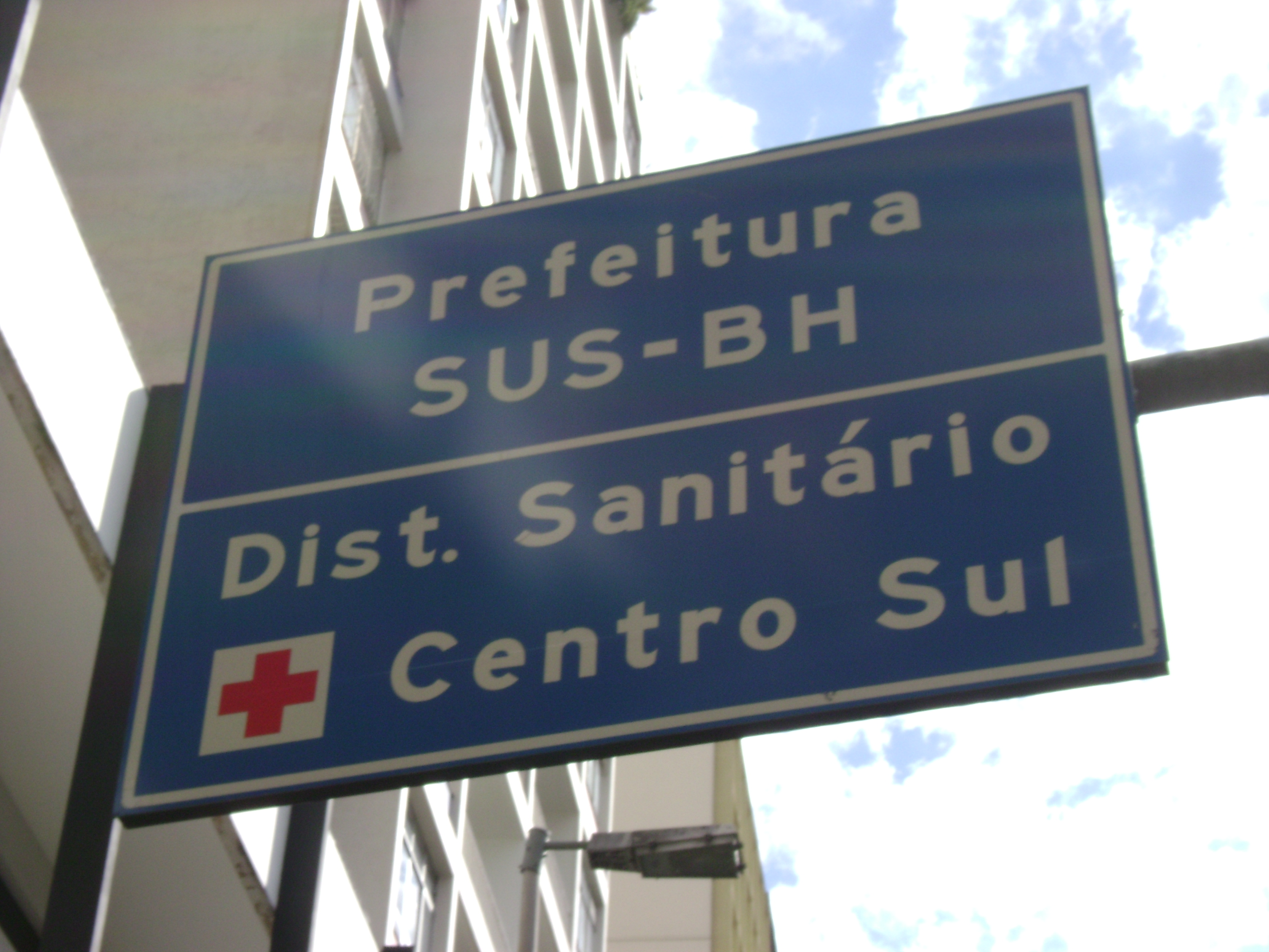 Placa indicativa de distrito sanitário, em Belo Horizonte.